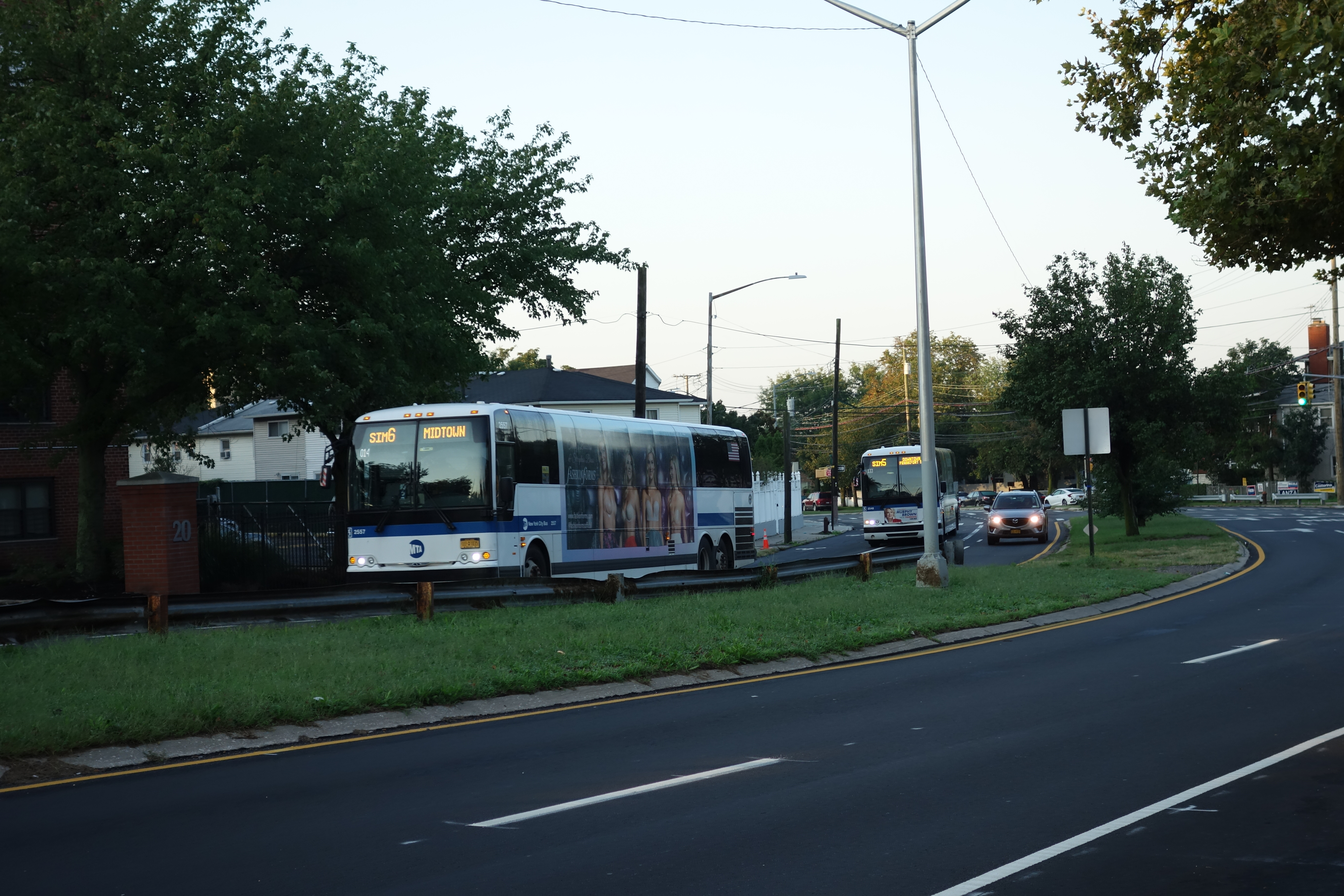 A Midtown-bound SIM6 express bus (front; left) and a Downtown–Frankfort Street-bound SIM5 express bus about to turn north from Father Capodanno Boulevard onto Lily Pond Avenue in Arrochar / South Beach, Staten Island. The SIM5 replaced the X4 and X8 routes, running the X8's route along Pearl Street in Lower Manhattan. The SIM6 replaced the X5 route, and replaced the Midtown portions of the X7 (now SIM7) and X9 (future SIM9).